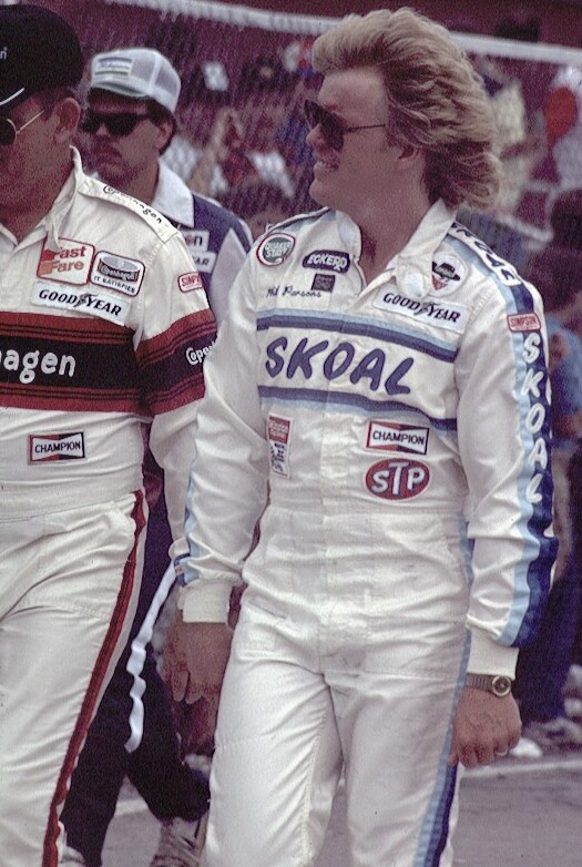 NASCAR drivers Benny Parsons (left) and his brother Phil Parsons (right). Photo by Ted Van Pelt